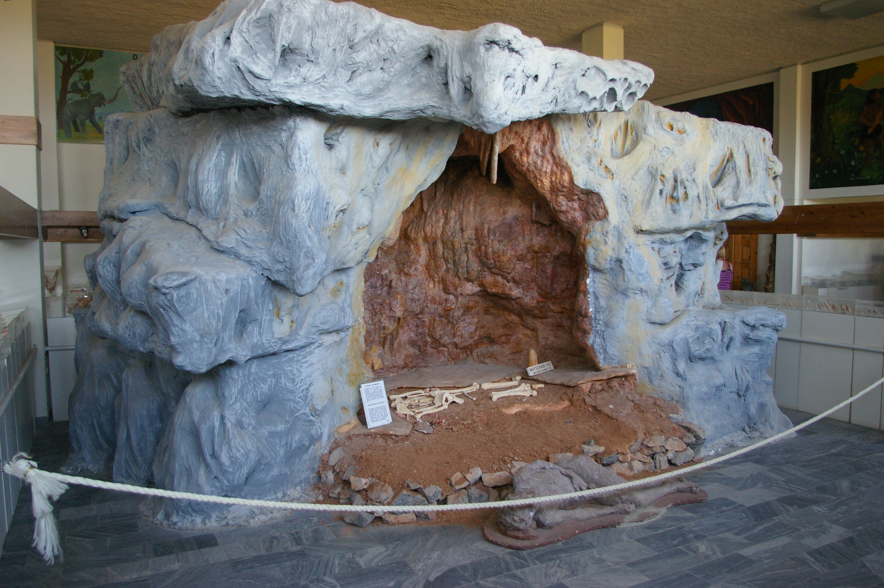 Reconstruction of the inner cave chamber where the Petralona man was discovered.